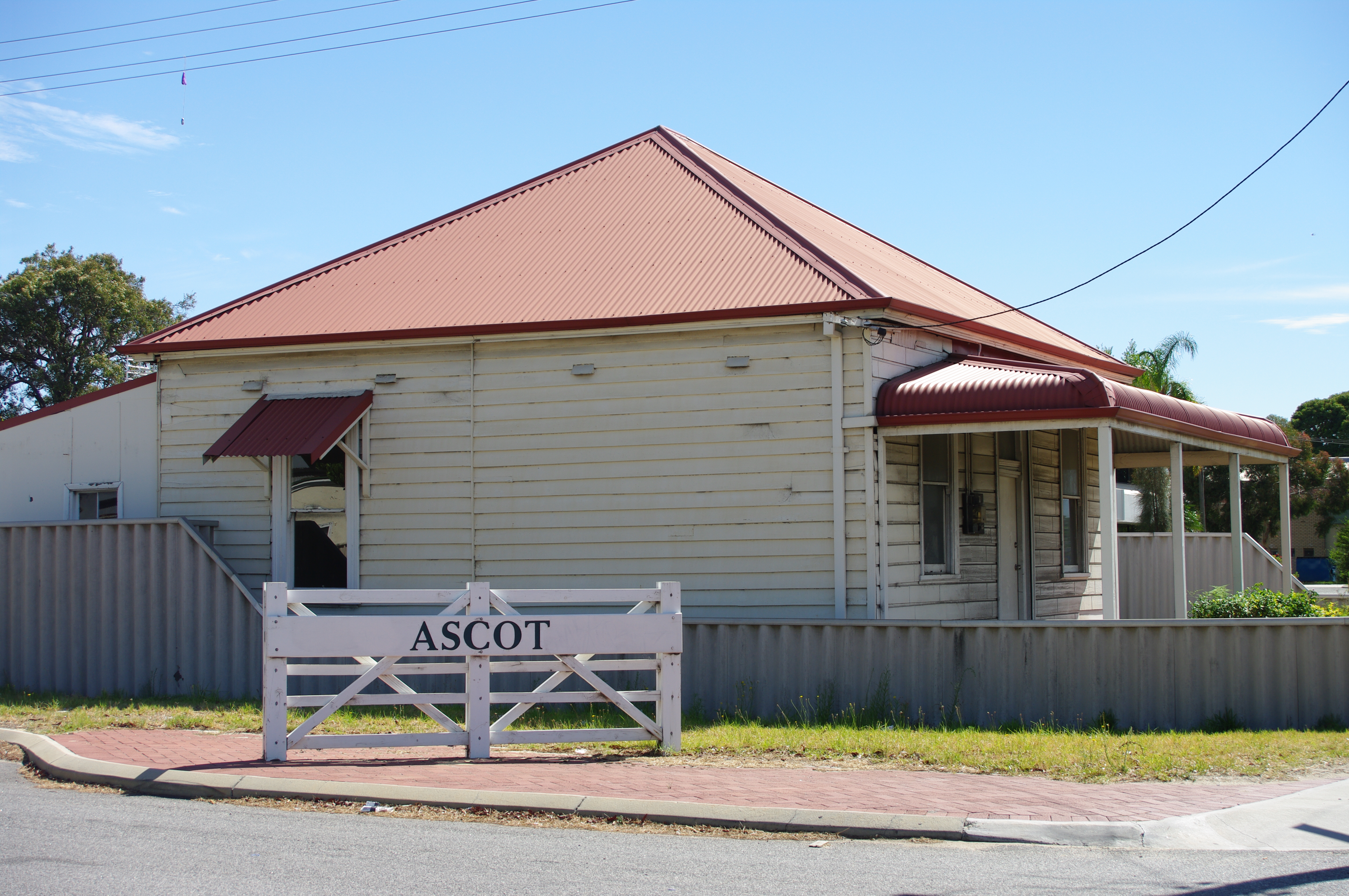 House in the Perth, Western Australia suburb of Ascotdemolished in 2012 to allow for widening of Great Eastern Hwy